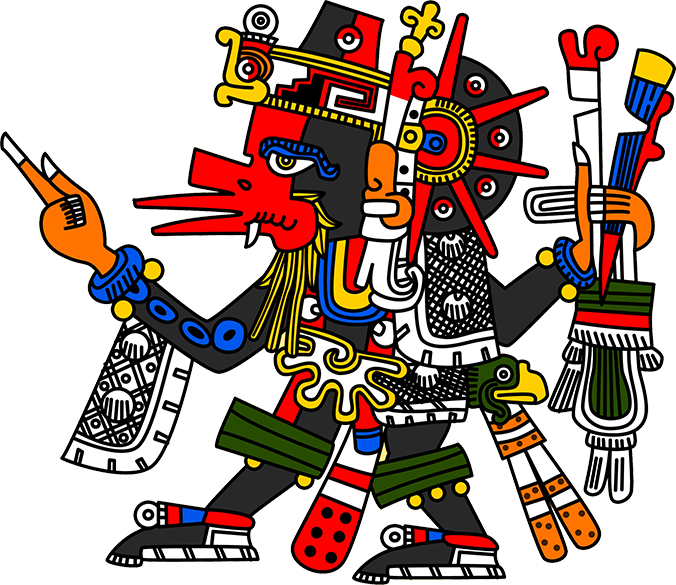 Quetzalcoatl